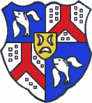 Coat of Arms of Pölzig